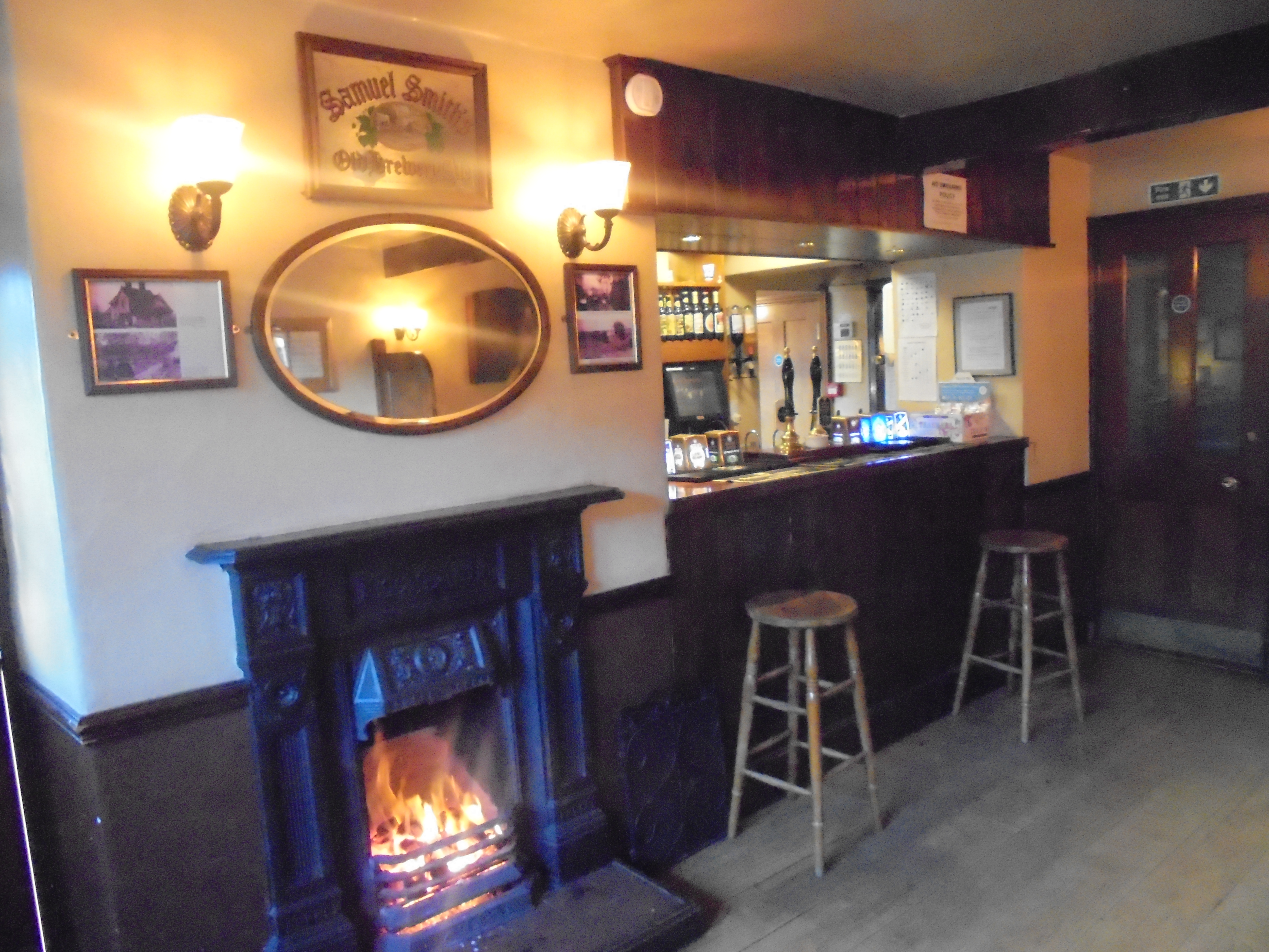 Public bar, Railway Inn, Spofforth, North Yorkshire. Taken on the afternoon of Saturday the 9th of March 2019.